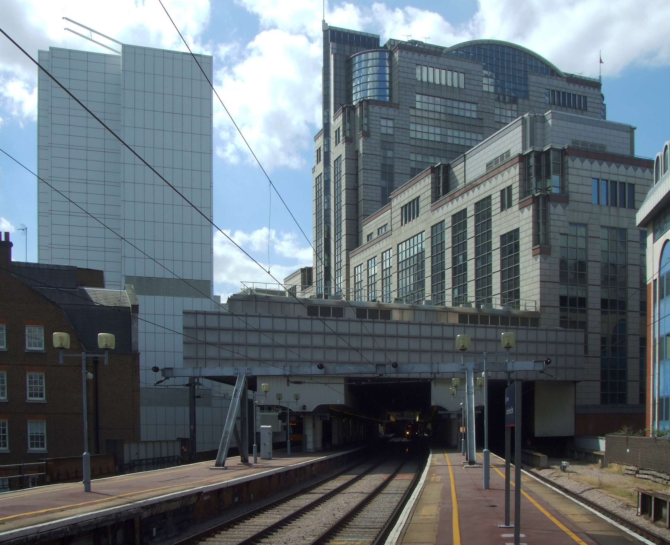 Fenchurch St. railway station, 07/07.